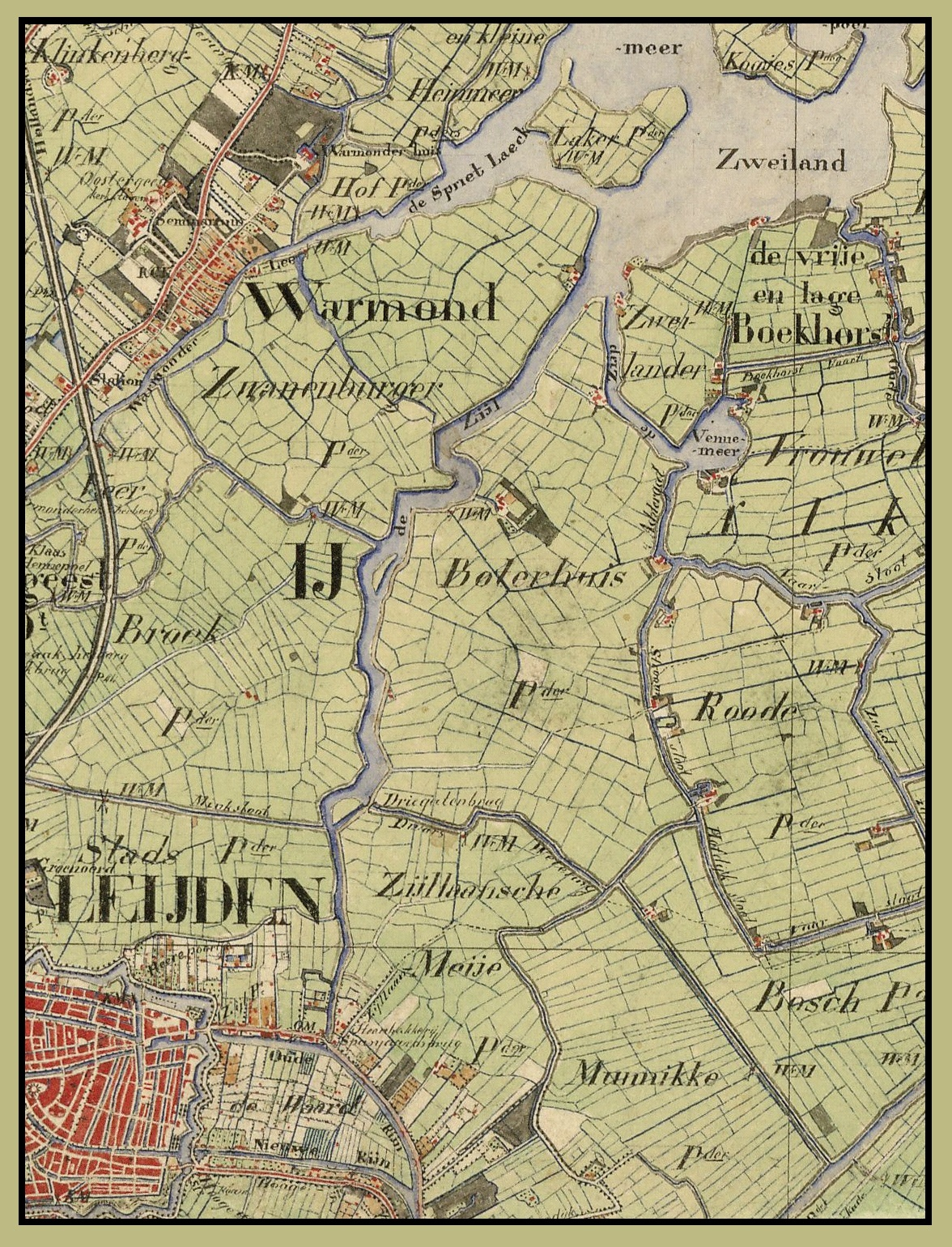 Part of a map of the Dutch Province of South Holland from 1851, showing the river Zijl, from Leiden to the Kagerplassen (Kaag lakes), Netherlands.